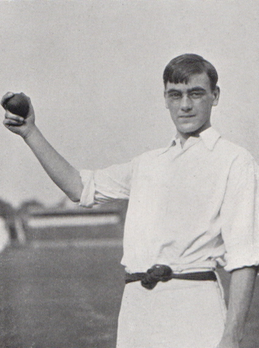 Jack Crawford demonstrating his grip of a cricket ball